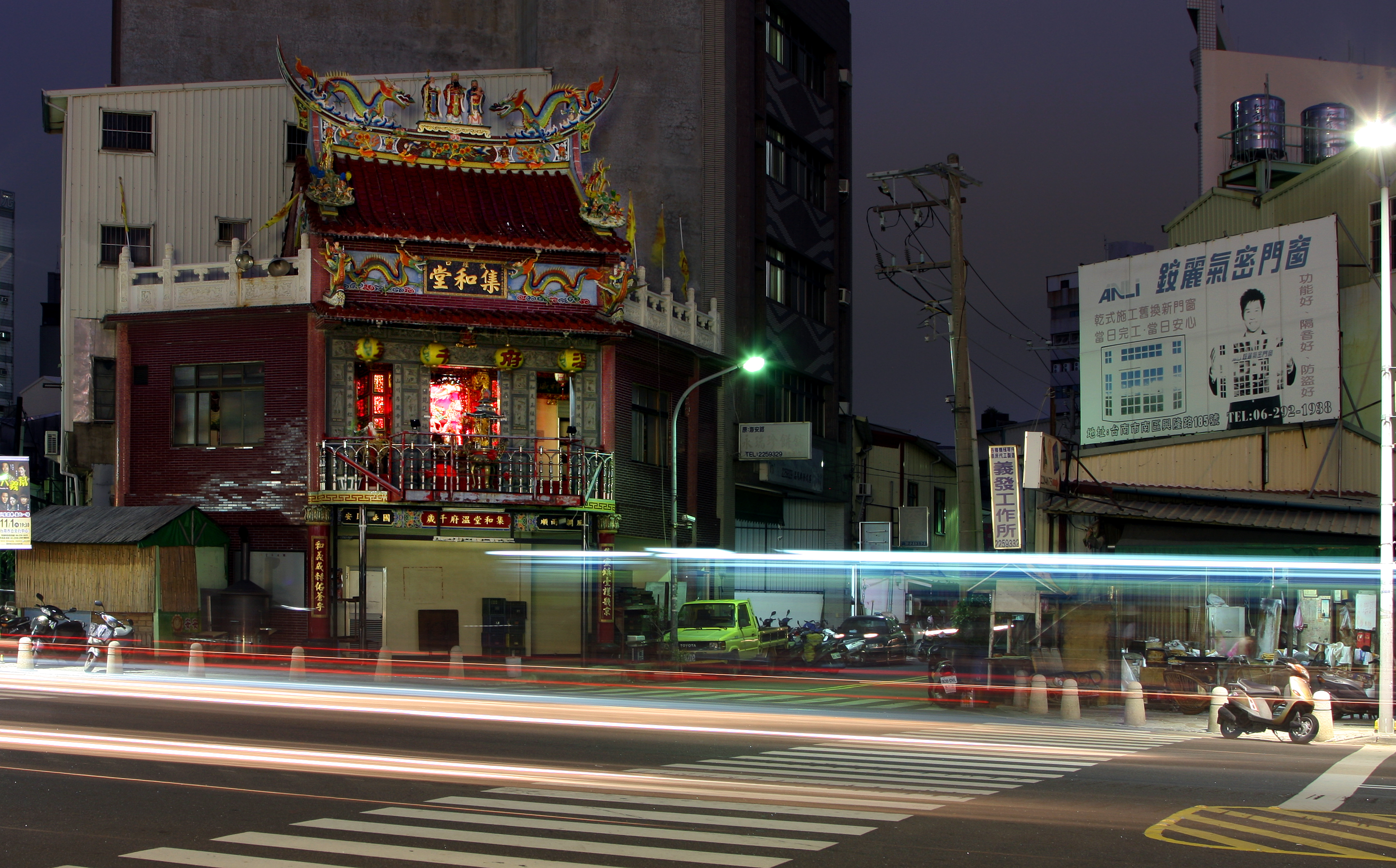 Street scene (around Shennong street) with 集和堂/Ji he tang temple in Tainan, Taiwan